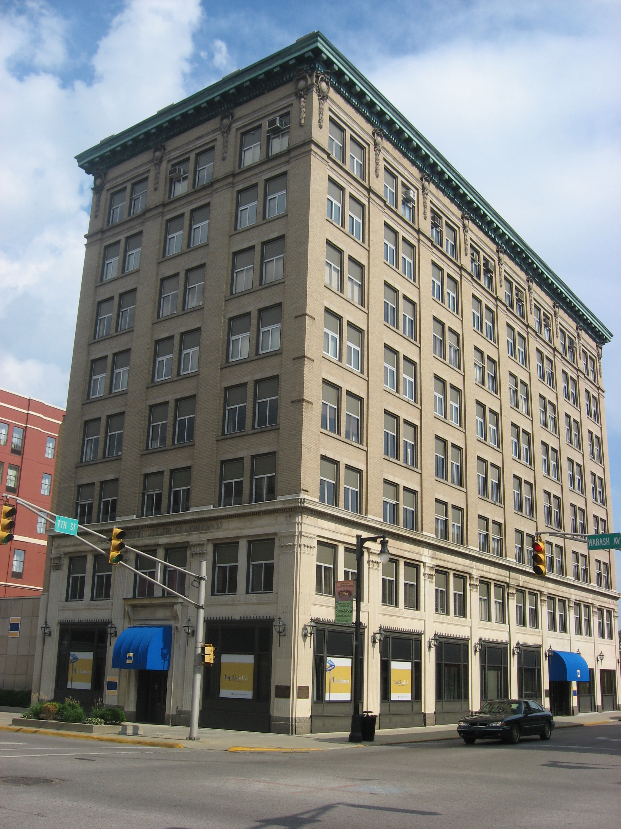 Building on the southeastern corner of the junction of Wabash Avenue and Seventh Street in Terre Haute, Indiana, United States. It is part of the Wabash Avenue-East Historic District, a historic district that is listed on the National Register of Historic Places.